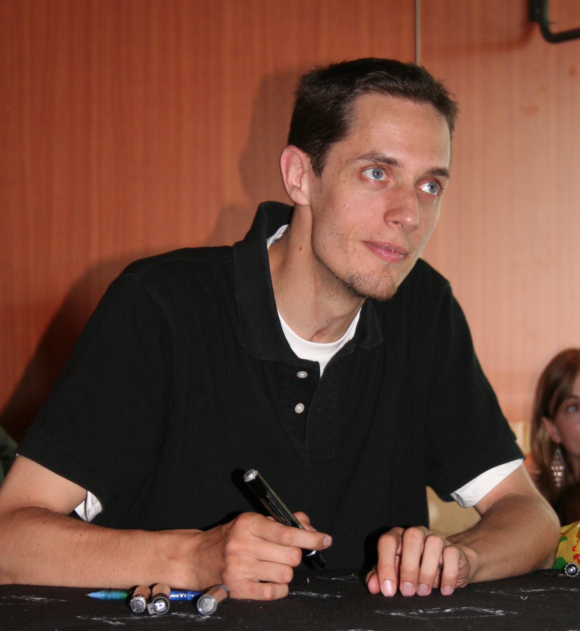 Autograph session with Grand Corps Malade at Fnac de La Défense (Paris, France).